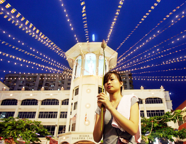 Original caption: A Buddhist devotees holding a lotus flower during Wesak Day celebration at Biddist Temple Mara Vihara. Wesak Day commemorates the birth of Buddha, his attaining of Enlightenment and his passing away into Nirvana. Kamal Sellehuddin/The Star